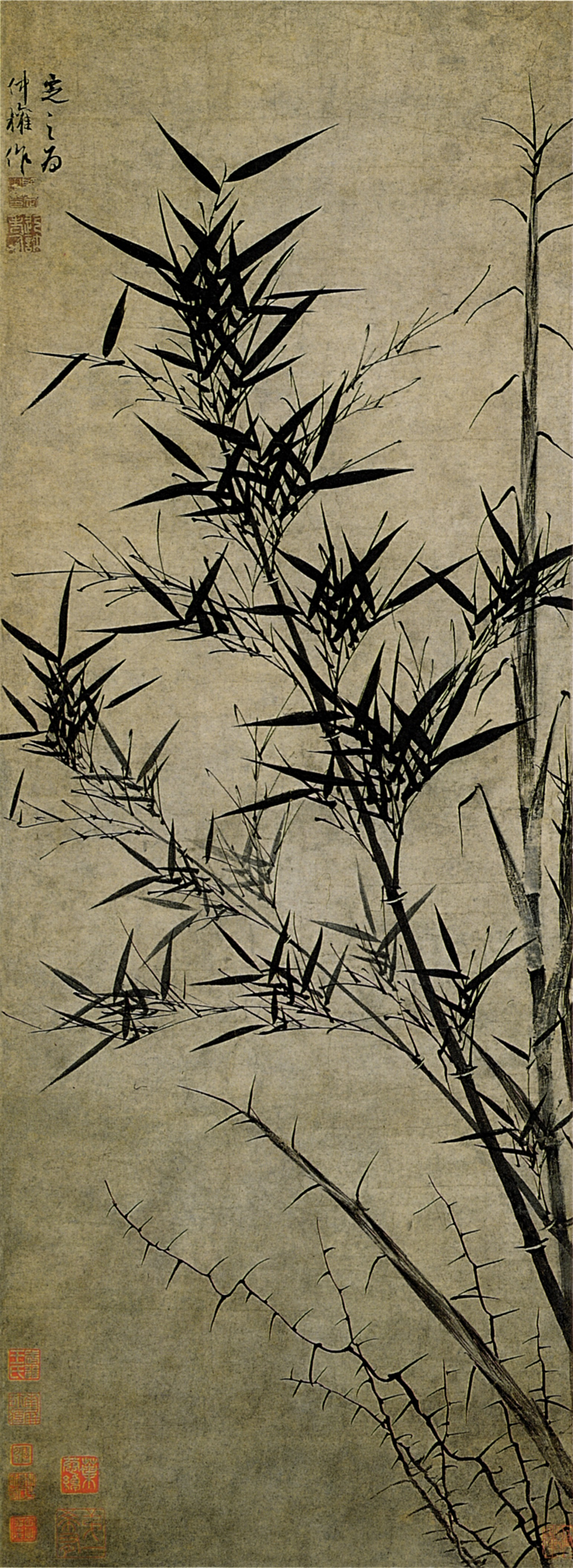 New Bamboo, hanging scroll, ink on paper, 91 x 33.1 cm. Located at the Palace Museum, Beijing.